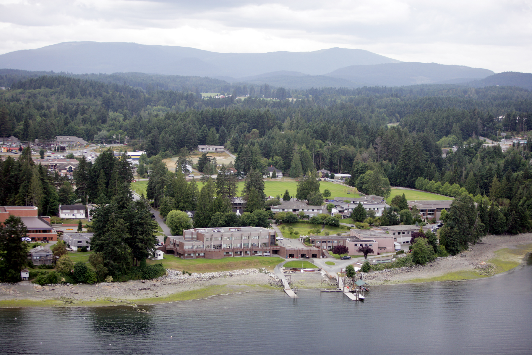 A photo of the Brentwood College School campus.